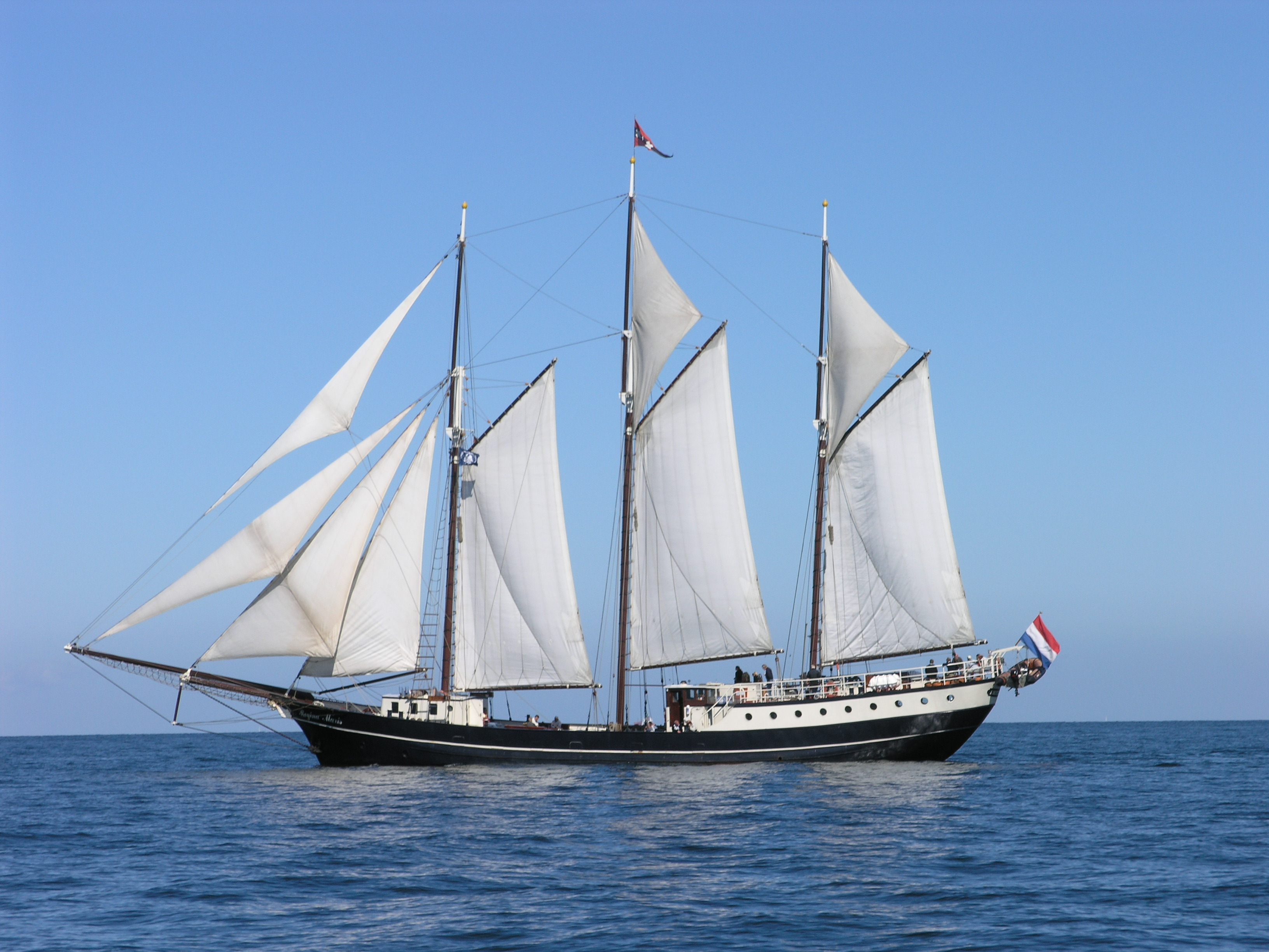 Sailing ship Regina Maris